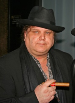 Fan photograph of radio personality Ron Bennington